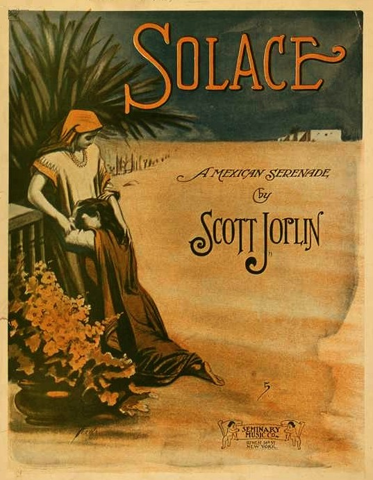 Solace, 1909